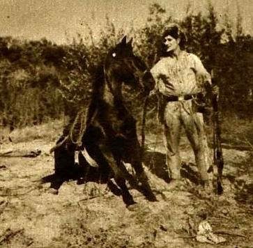 Still from the American western film serial Winners of the West (1921) with Art Acord, on page 41 of the December 1921 Screenland.